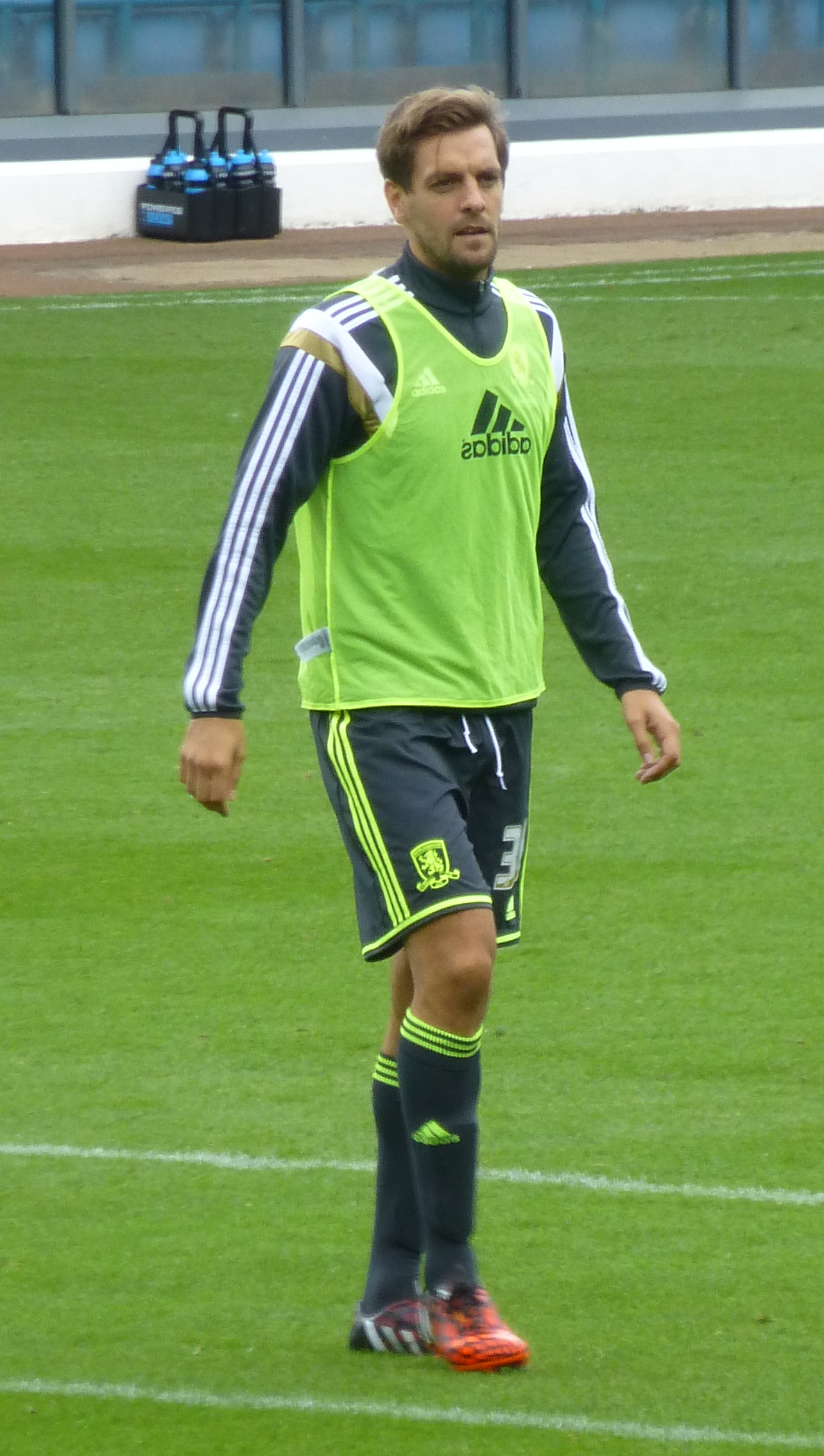 Jonathan Woodgate playing for Middlesbrough